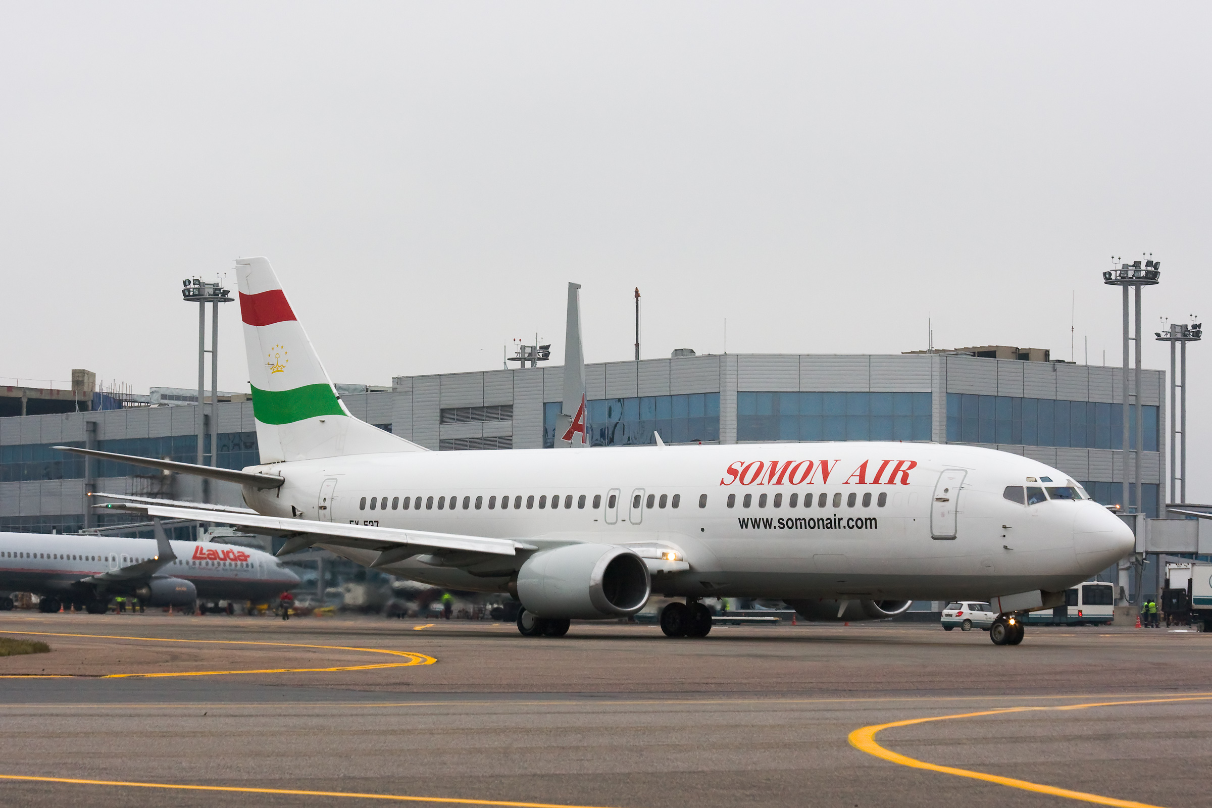 Somon airlines Boeing 737